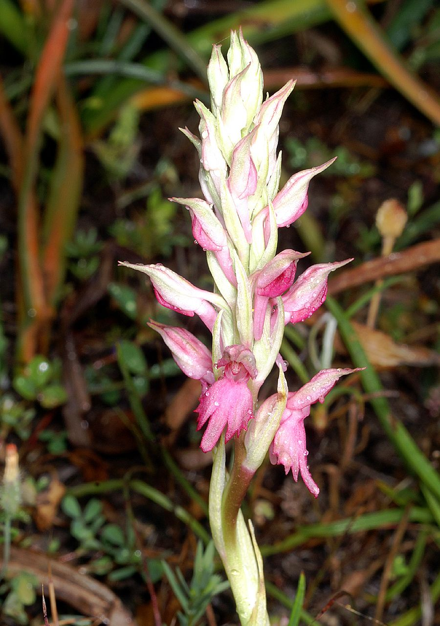 Orchis sancta